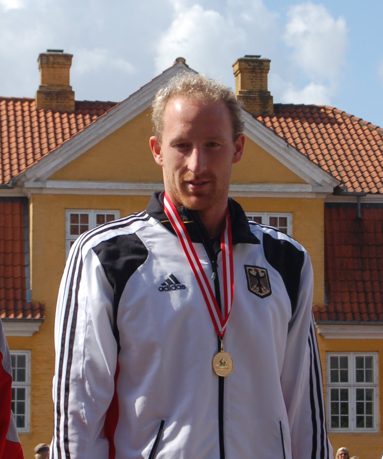 Thomas Lurz at the victory ceremony at the 2009 10K World Cup in Copenhagen, Denmark.